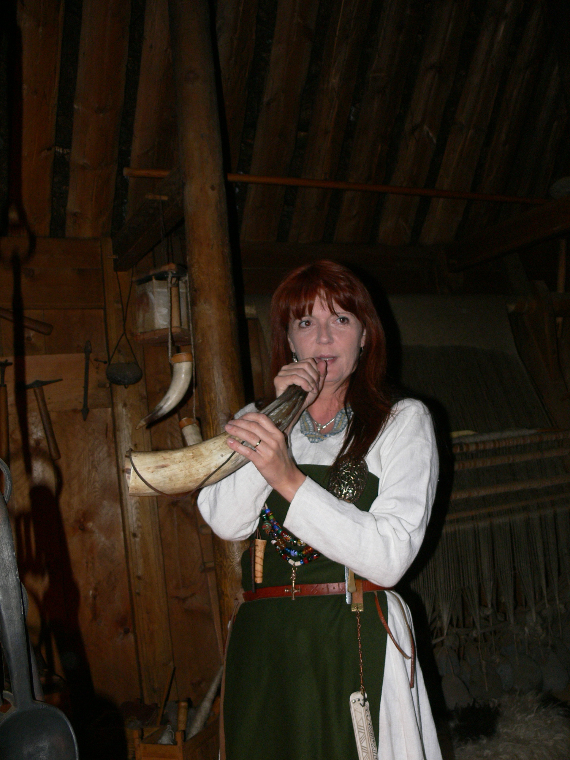 Eiríksstaðir. Dressed-up "Viking"-guide blowing a horn.